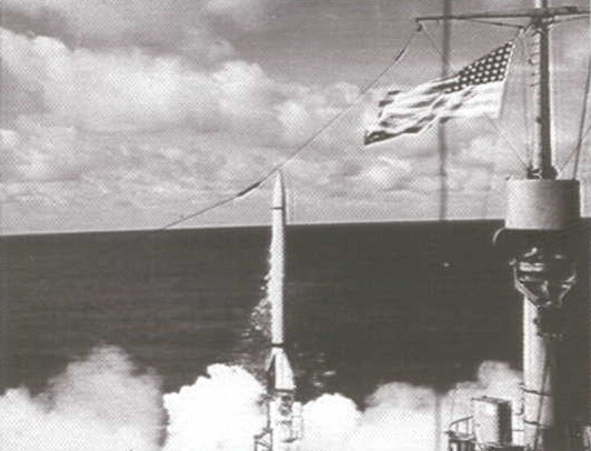 Viking rocket #4